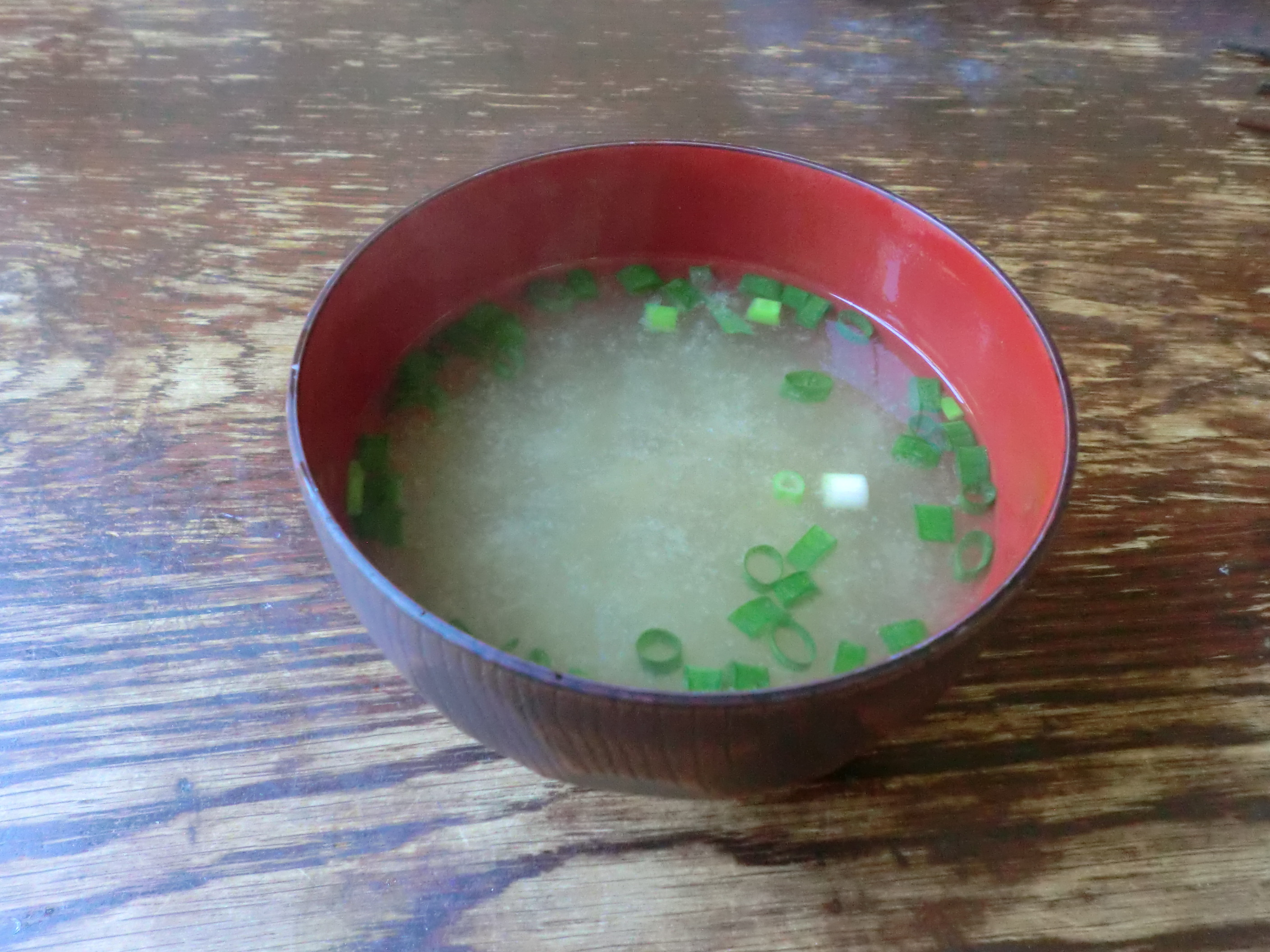 Chabushi(kind of soup), famous in Kagoshima,Japan.